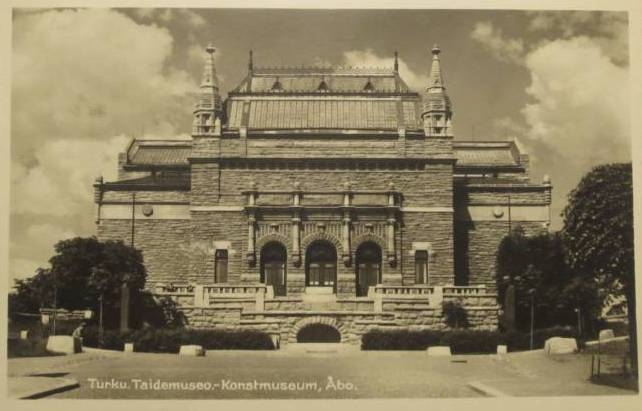 Turku Art Museum in 1930's photo by Gustaf Welin